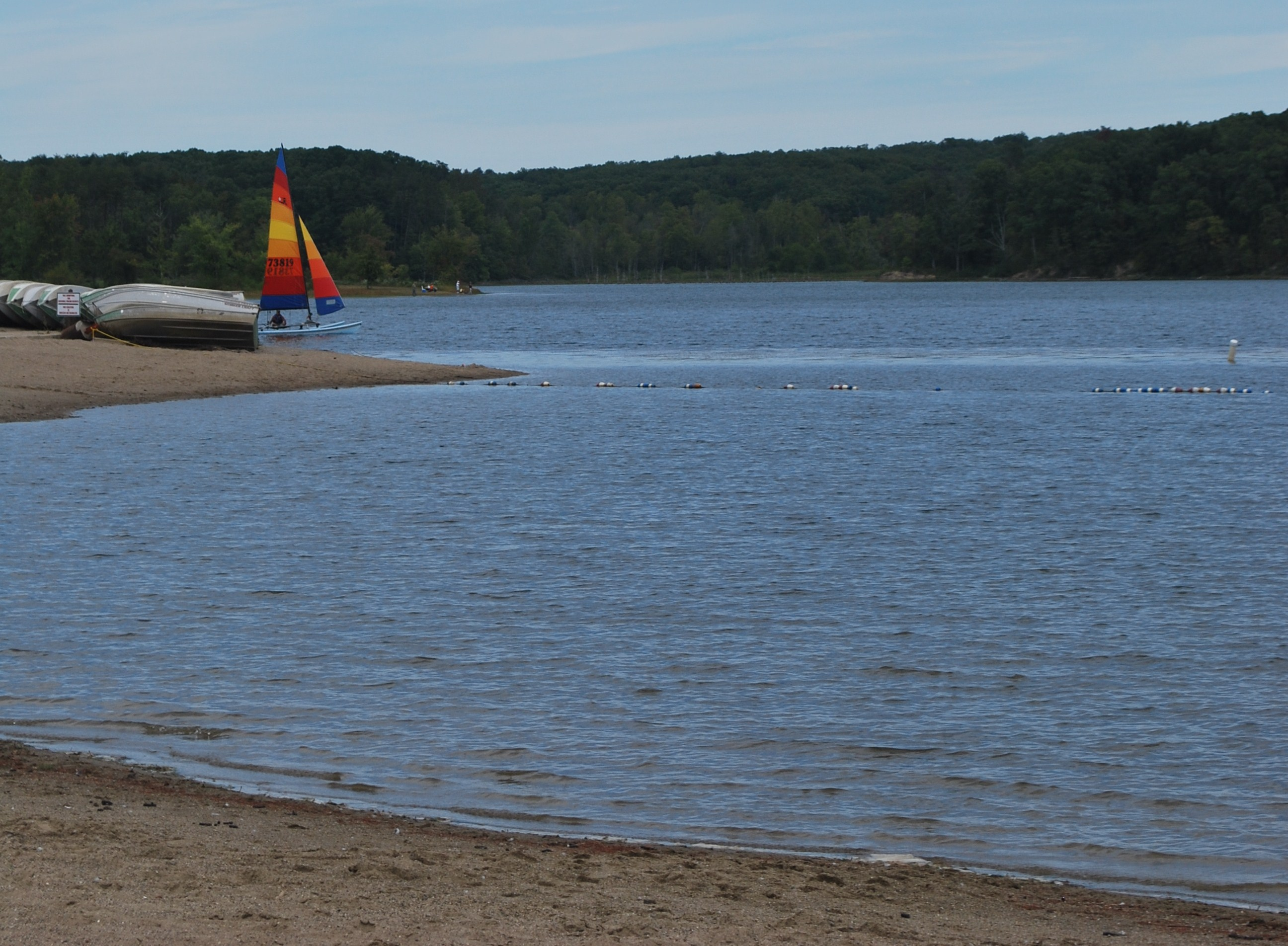 shot taken at the beach area